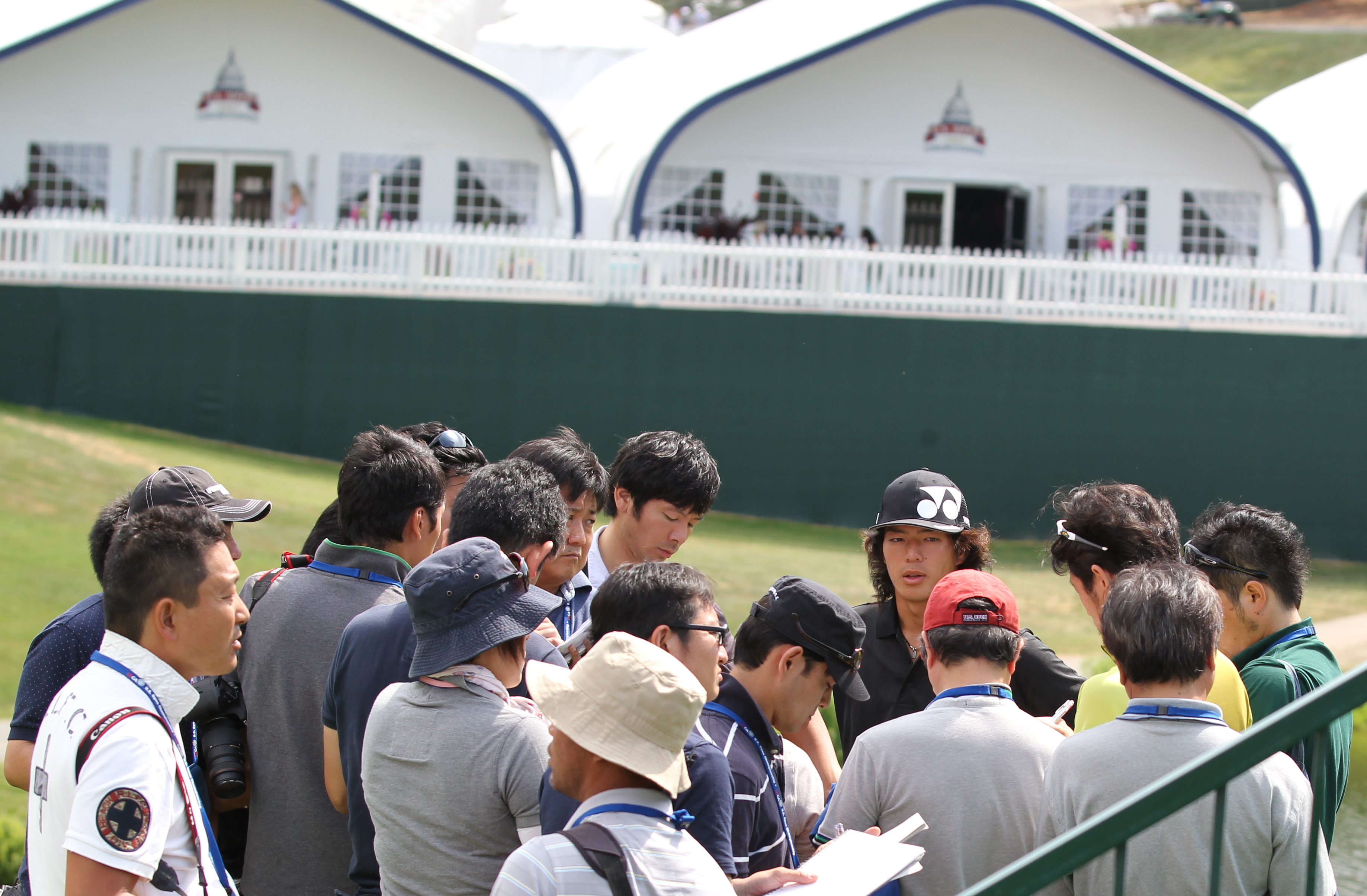 Ryo Ishikawa, in the black hat, from Japan is interviewed during a practice round for the US Open Championship golf tournament in Bethesda, Md. on Monday, June 13, 2011.